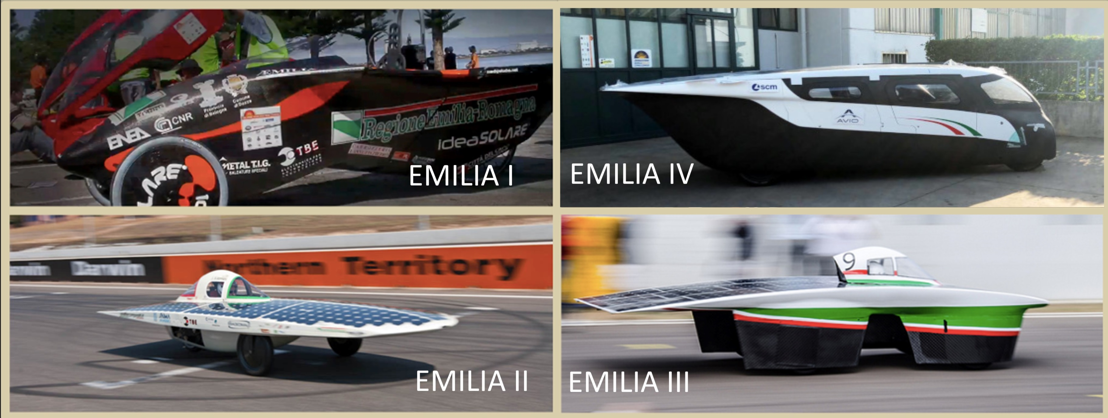 veicoli solari